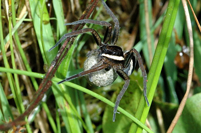 female Dolomedes fimbriatus with egg sac, from Commanster, Belgian High Ardennes .